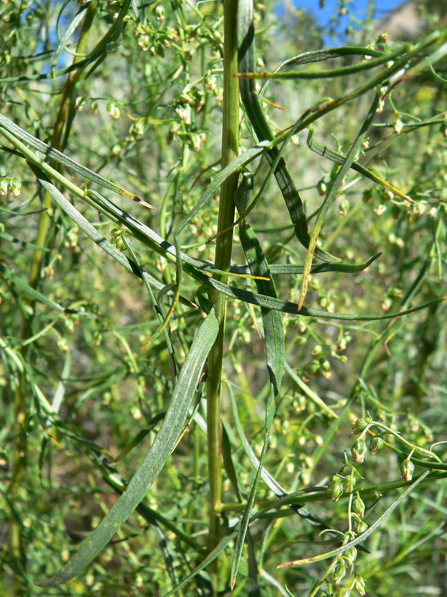 Artemisia dracunculus near the junction of 157 and 158, Kyle Canyon, Spring Mountains, southern Nevada (elev. about 2100 m)